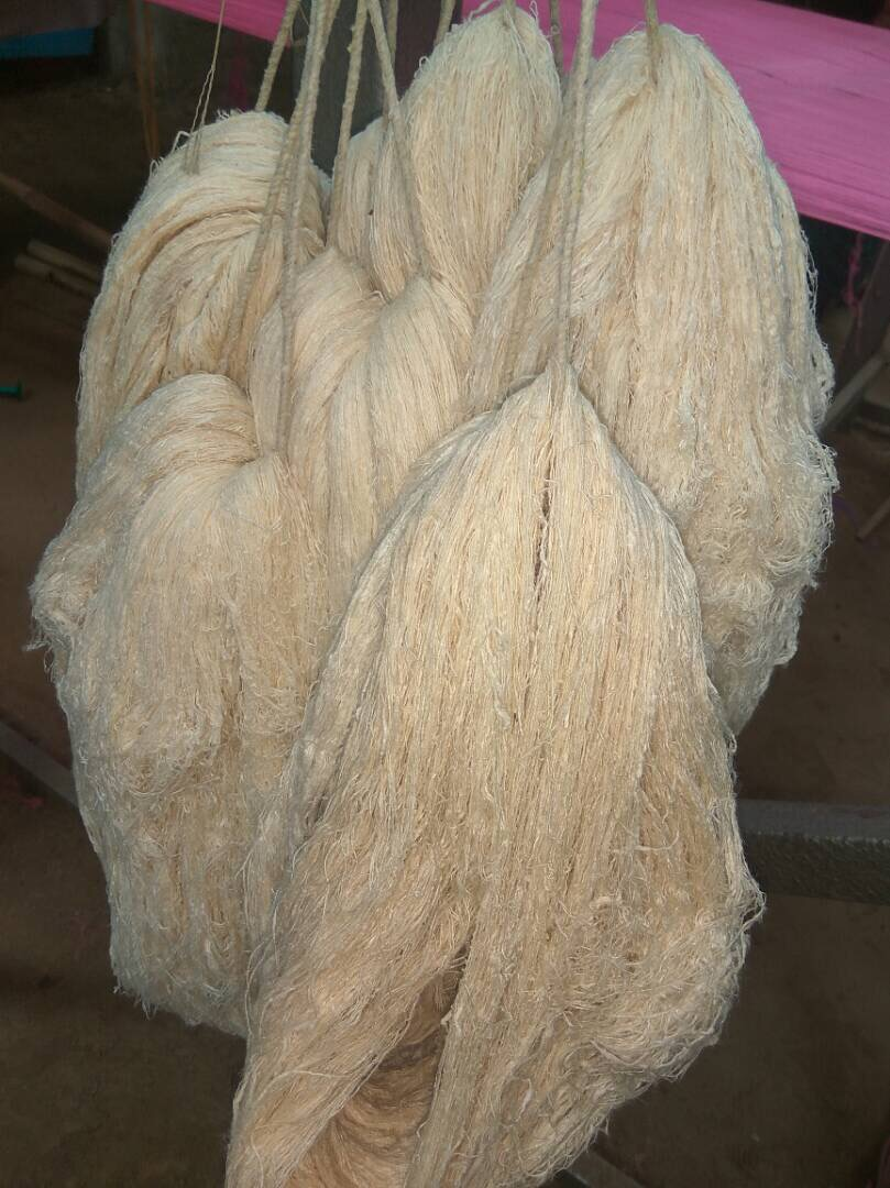 Image of Eri silk fiber seen at 7Weaves, Assam, as part of Eri silk production by indigenous people